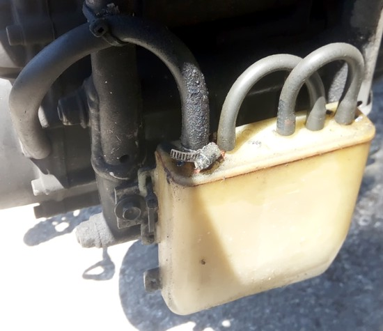 Three-chamber oil vapor decanter series (canister)